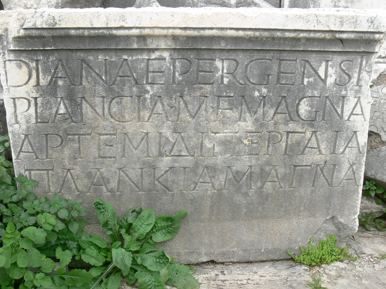 Perge ( Antalya/Turkey ). Bilingual latin-greek dedication inscription "To the Diana ( Artemis ) of Perge from Plancia Magna, daughter of Marcus"( 120 AD ).